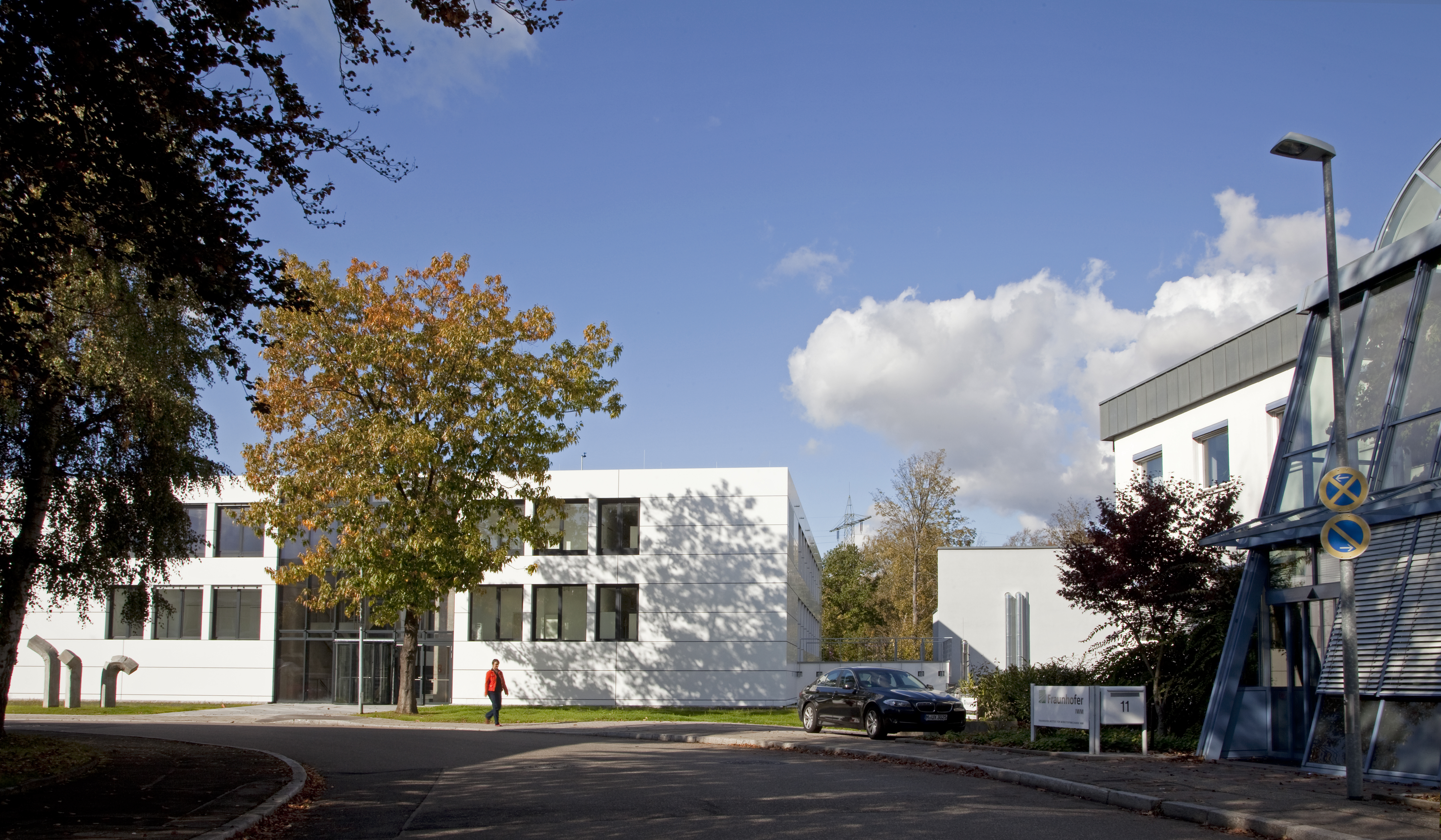 Fraunhofer- Institut für Werkstoffmechanik IWM, Wöhlerstrasse11, Freiburg.